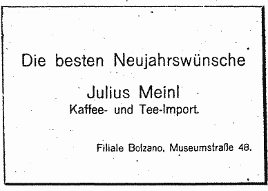 Advertisement for Julius Meinl Grocery Products from 1925, Bozen-Bolzano (South Tyrol)